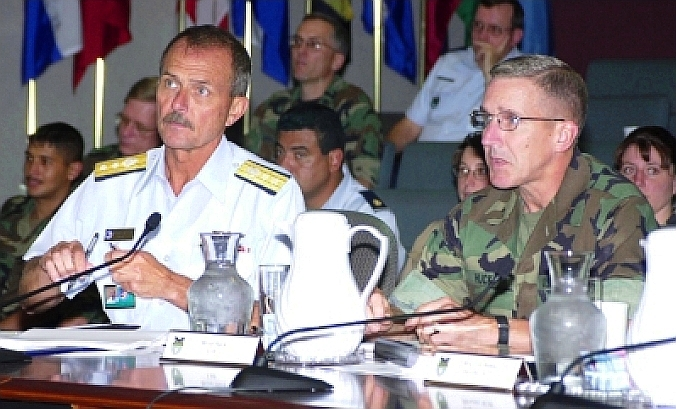 United States Marine Corps Brigadier General Richard Huck (seated right), the Chief of Staff of the United States Southern Command, receives a briefing on Thursday, July 26, 2001, on the Joint Manpower Resources Offset Process.